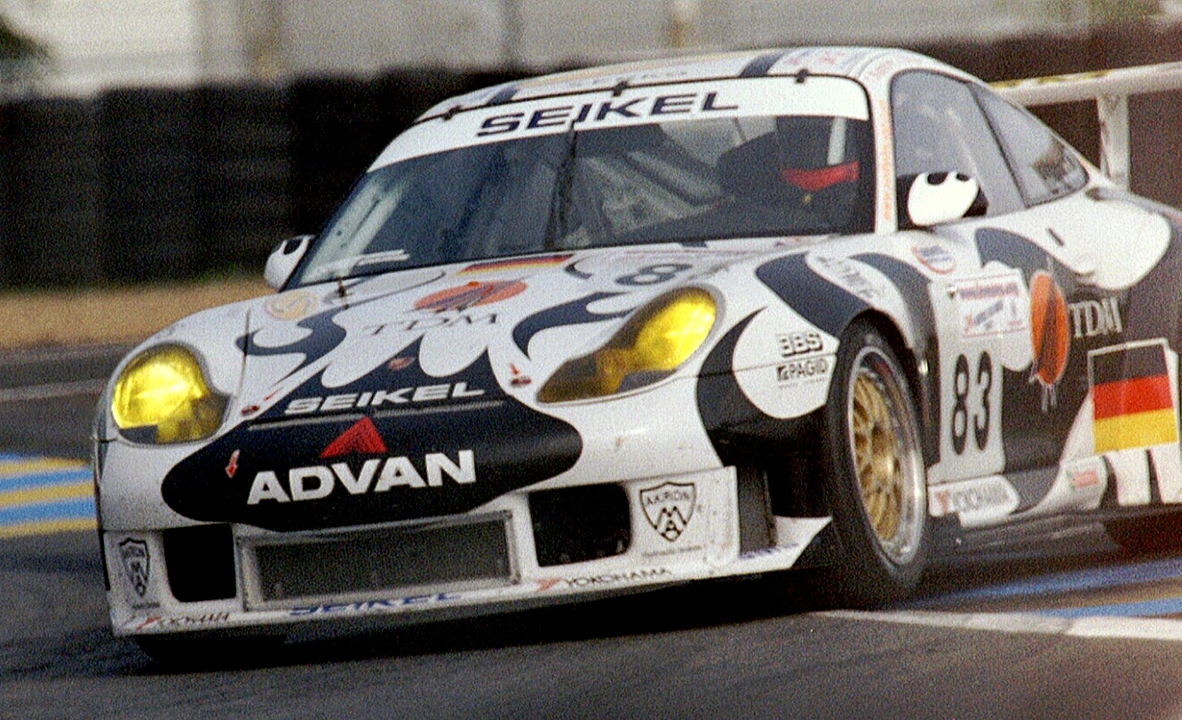 Seikel Motorsport Porsche 996 GT3 RS driven by Tony Burgess, David Shep & Andrew Bagnall at Ford Chicane at the 2003 at the 24 Hours of Le Mans